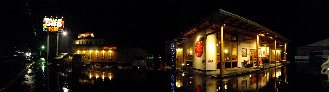 らーめん八角丹波店